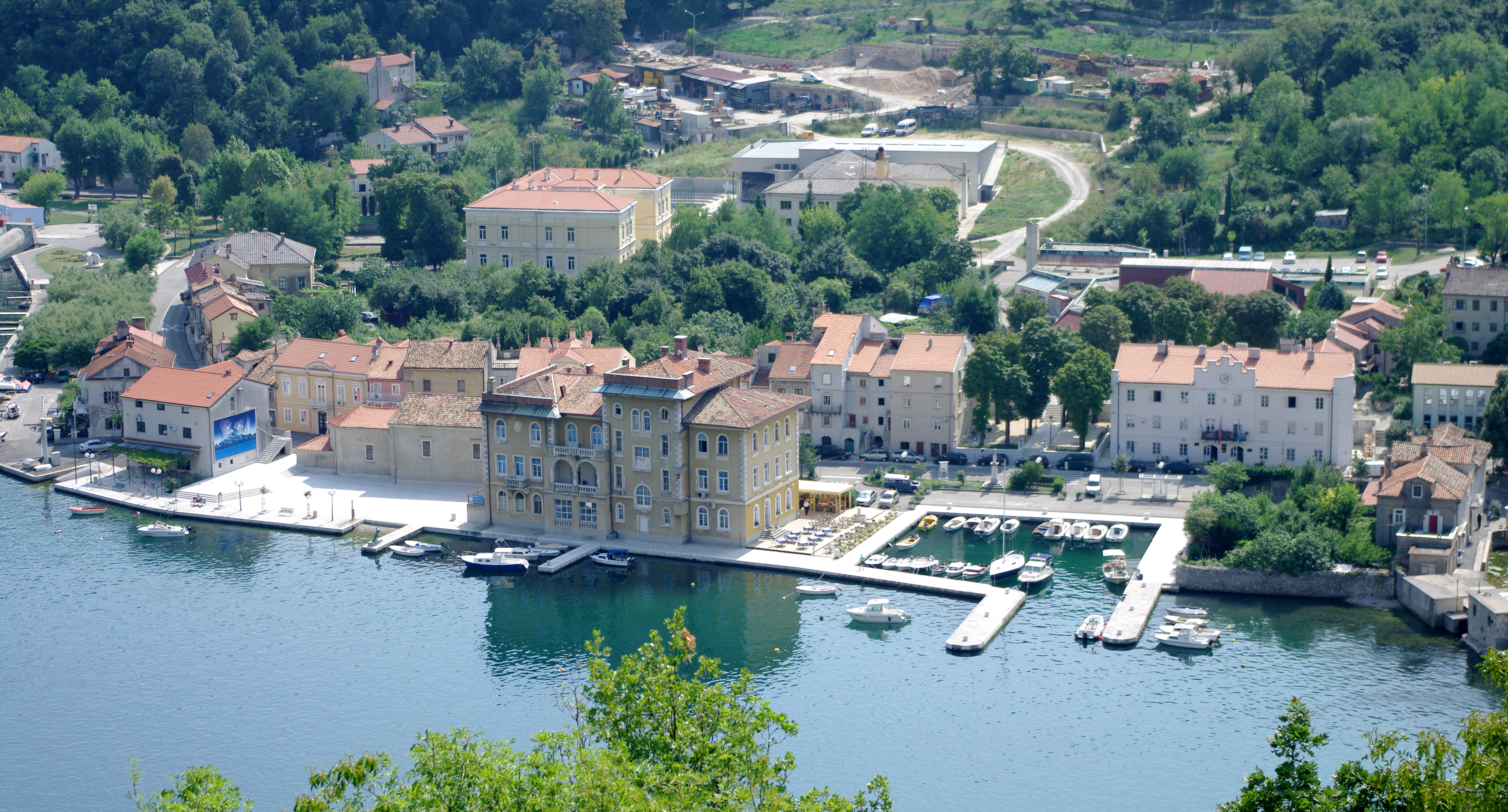 Seafront of Bakar, Croatia